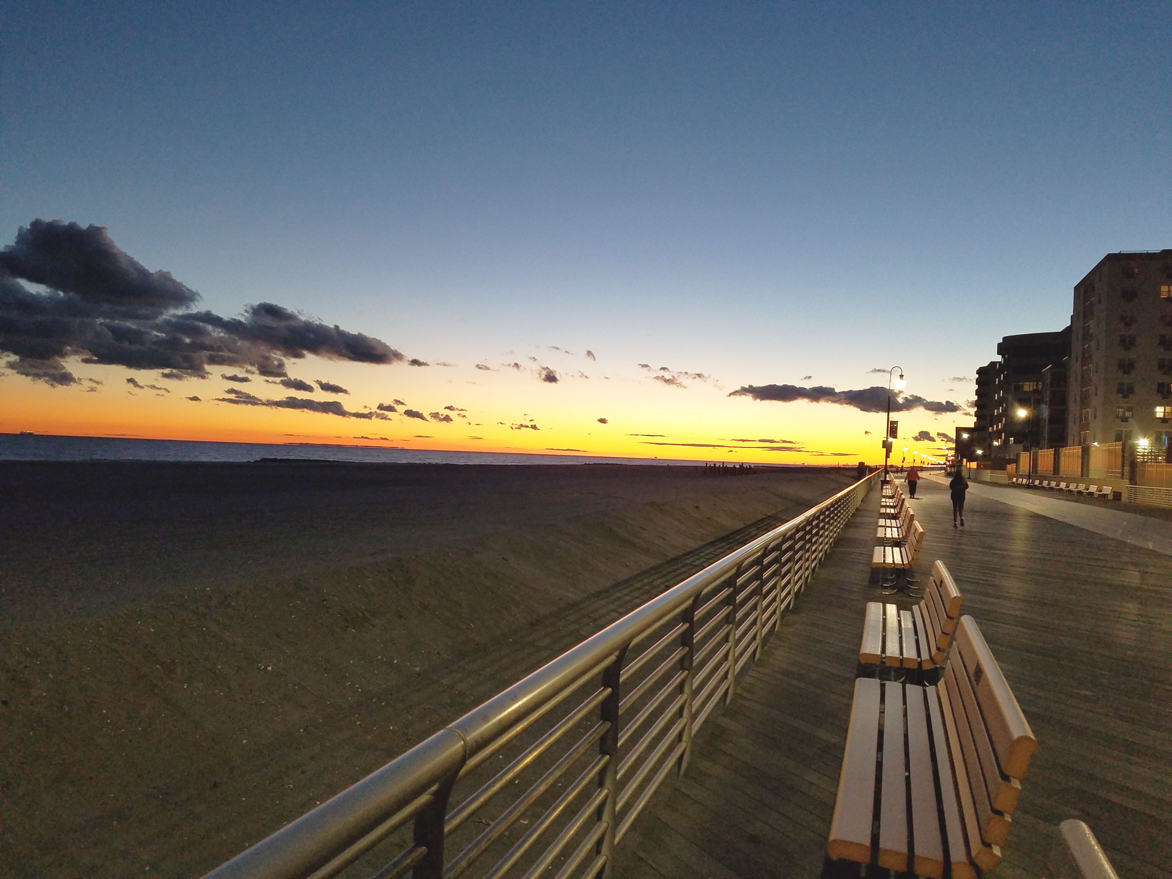 The boardwalk view at sunset in Long Beach, NY. Photo was taken at Frankling Blvd facing west.